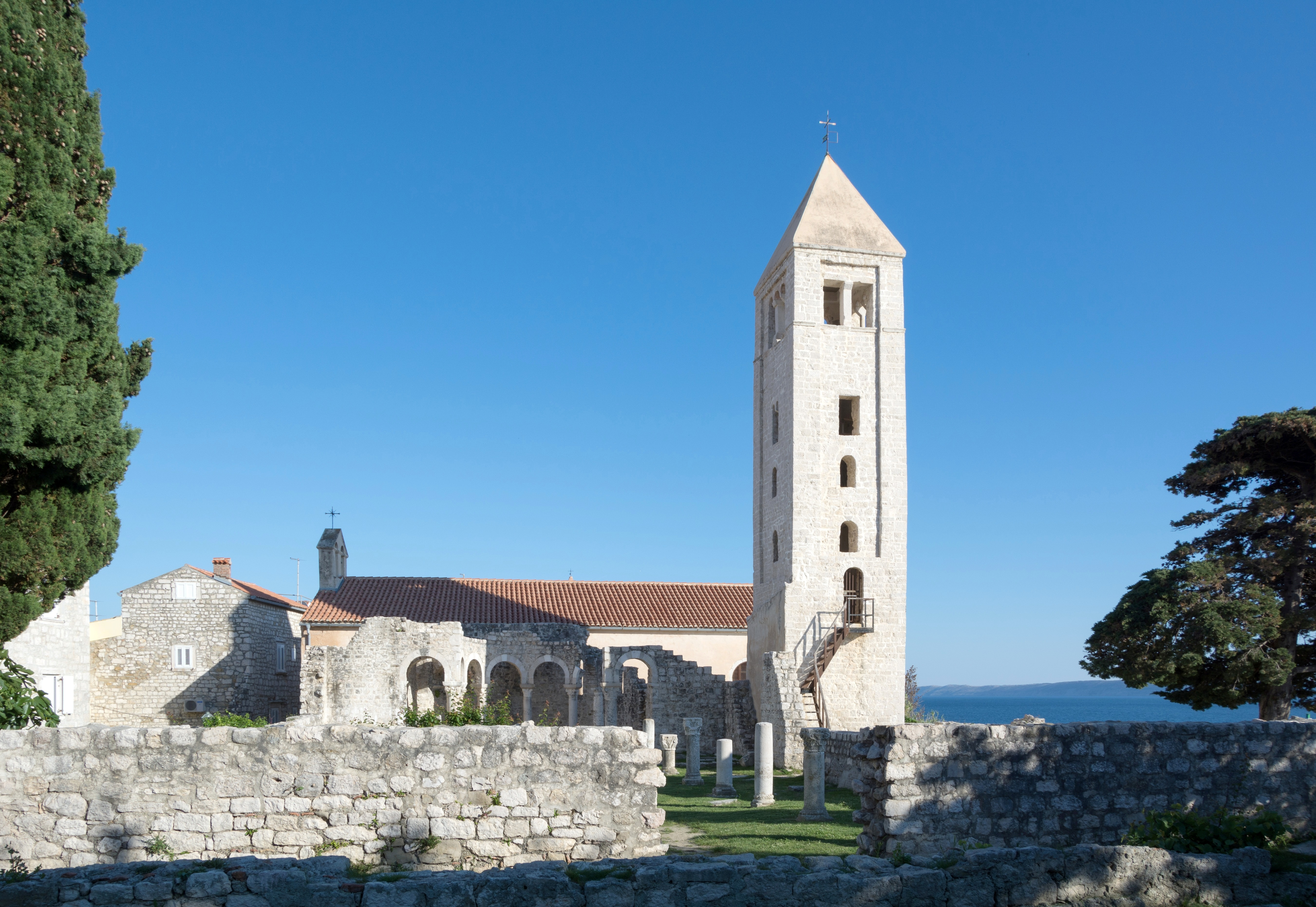 Probably in the 7th century the erection of the Basilika of St. John the Evangelist in Rab was started. But it was abandoned at the end of the 19th century. Only the belfry survived at least as look-out.